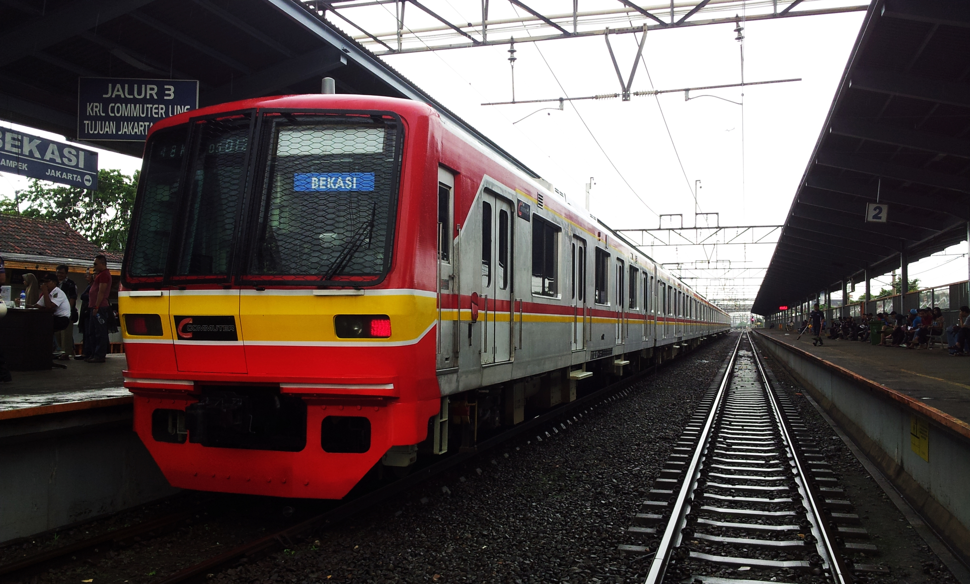 Former Tokyo Metro 05 series EMU set 112 stabled at Bekasi Station in Indonesia